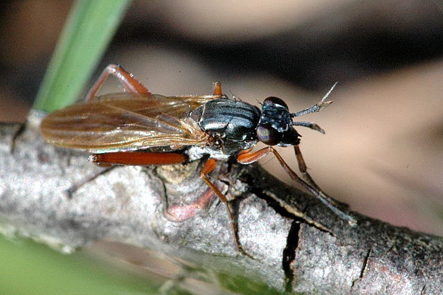 Picture taken in Commanster, Belgian High Ardennes . Species: Sepedon sphegea